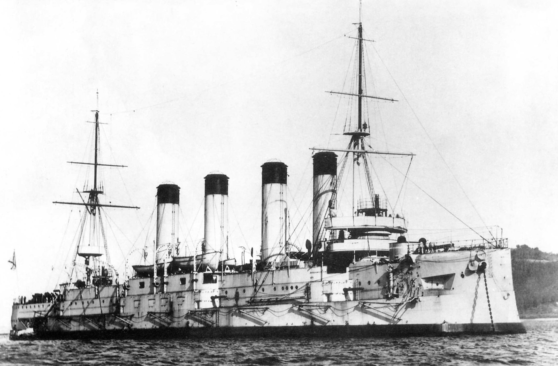 Imperial Russian Armoured cruiser Bayan (I) in Toulon, 1902.